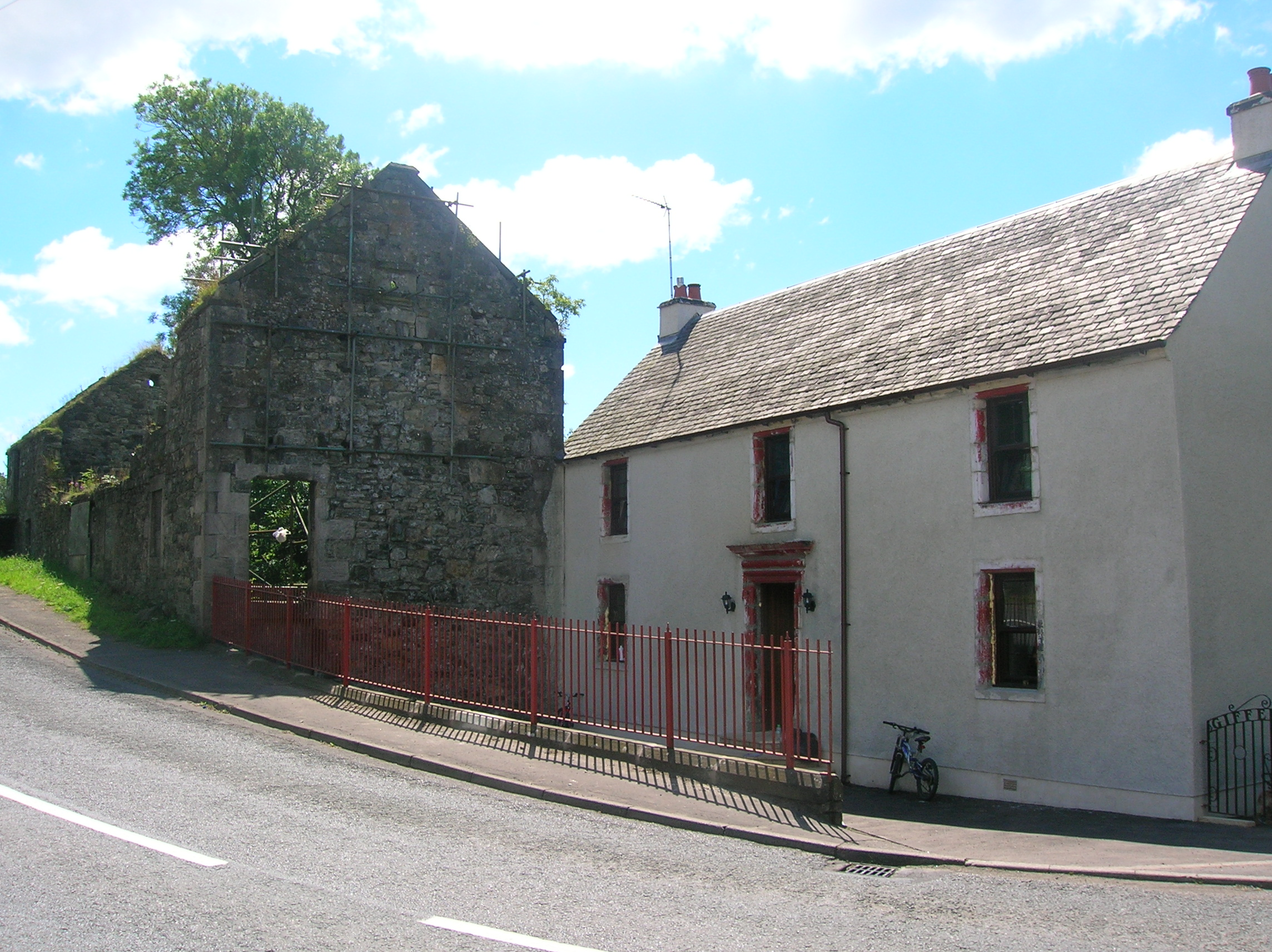 Giffen mill and miller's house near Barrmill, North Ayrshire, Scotland.Rosser 12:19, 25 July 2007 (UTC)